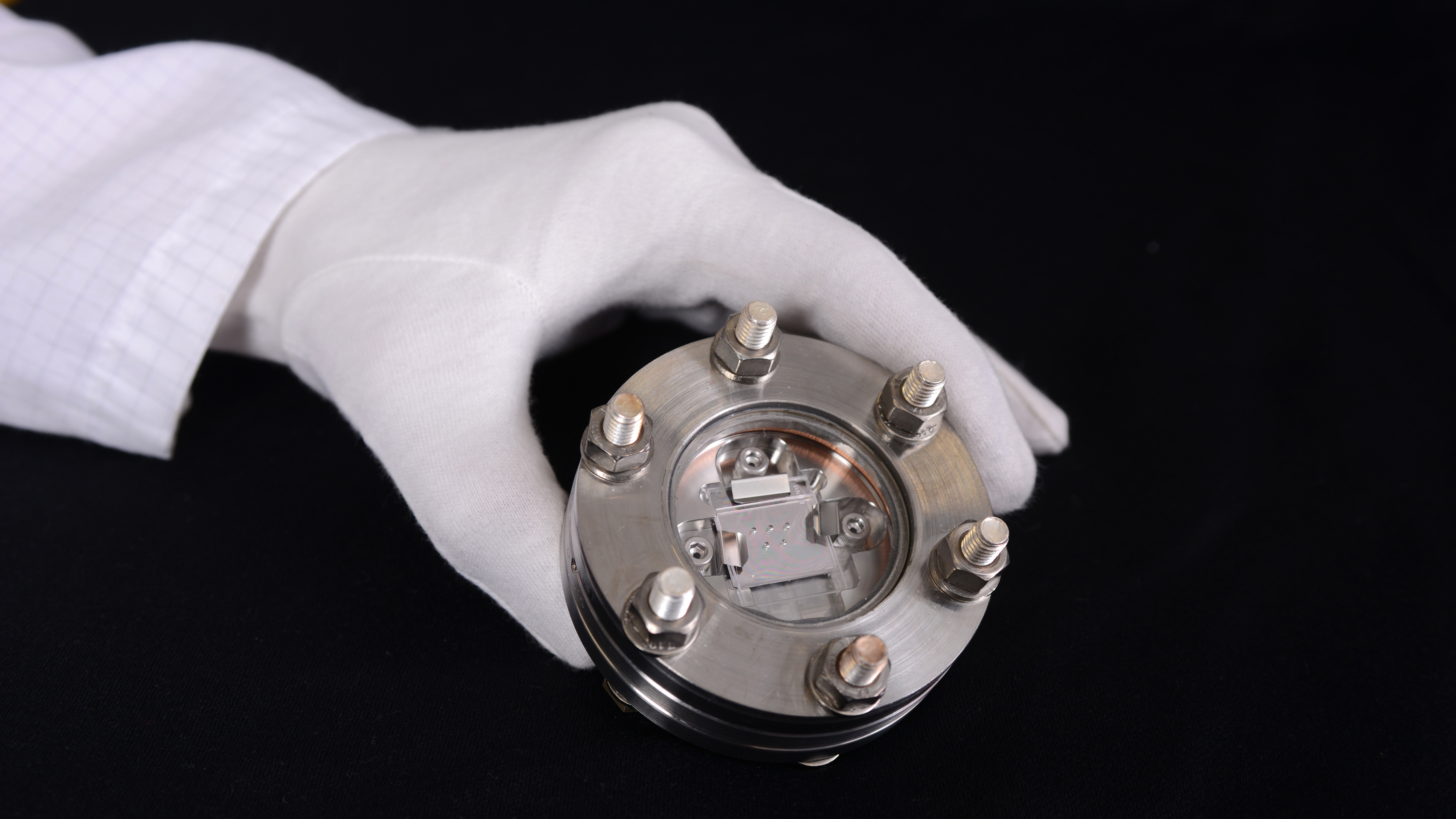 Container with particles from the asteroid Itokawa – each less than one-tenth of a millimetre across – brought back to Earth by the Japanese Hayabusa spacecraft.